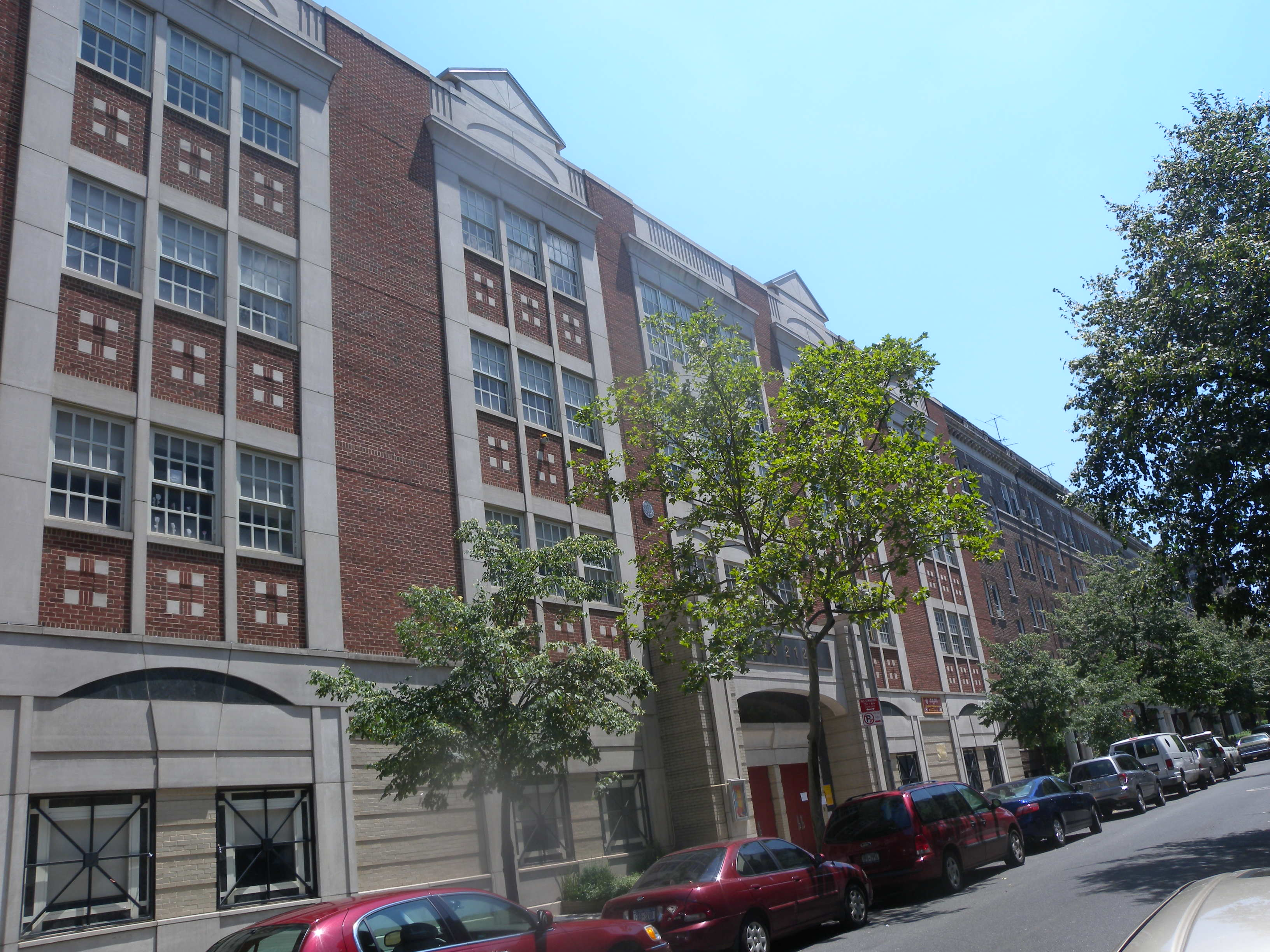 Looking southeast across 82nd Street at PS 212 on a sunny midday. One of a batch of six I forgot to edit before uploading.